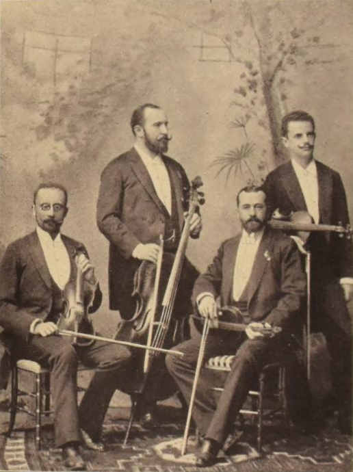 Hellmesberger Quartet of Vienna: Julius Egghard, Ferdinand Hellmesberger, Joseph Hellmesberger Jr., Theodor Schwendt